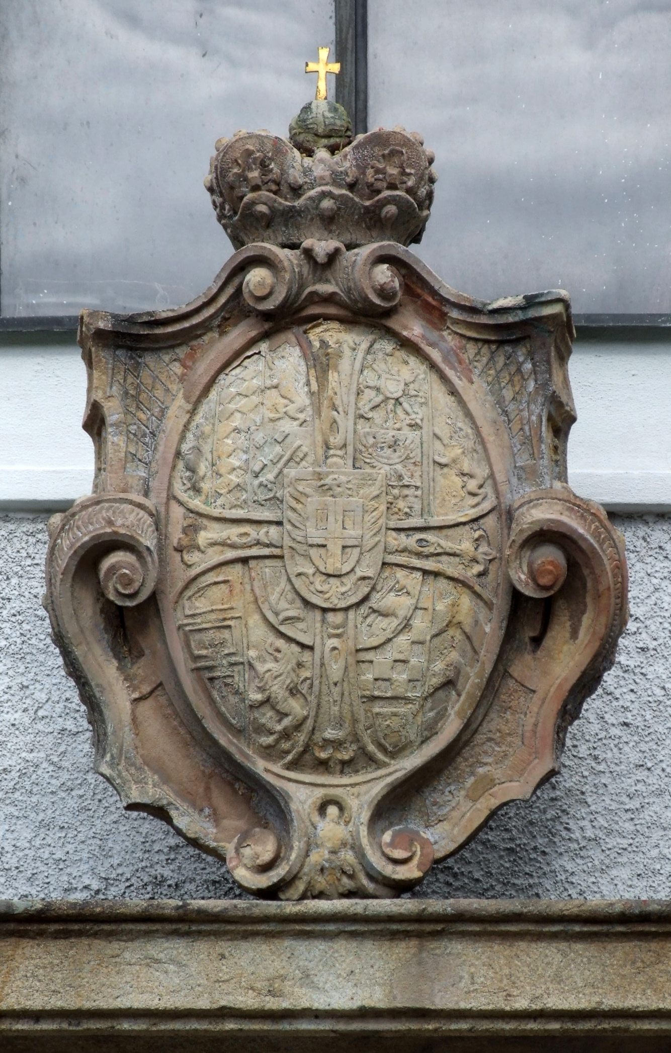 Javorník (in